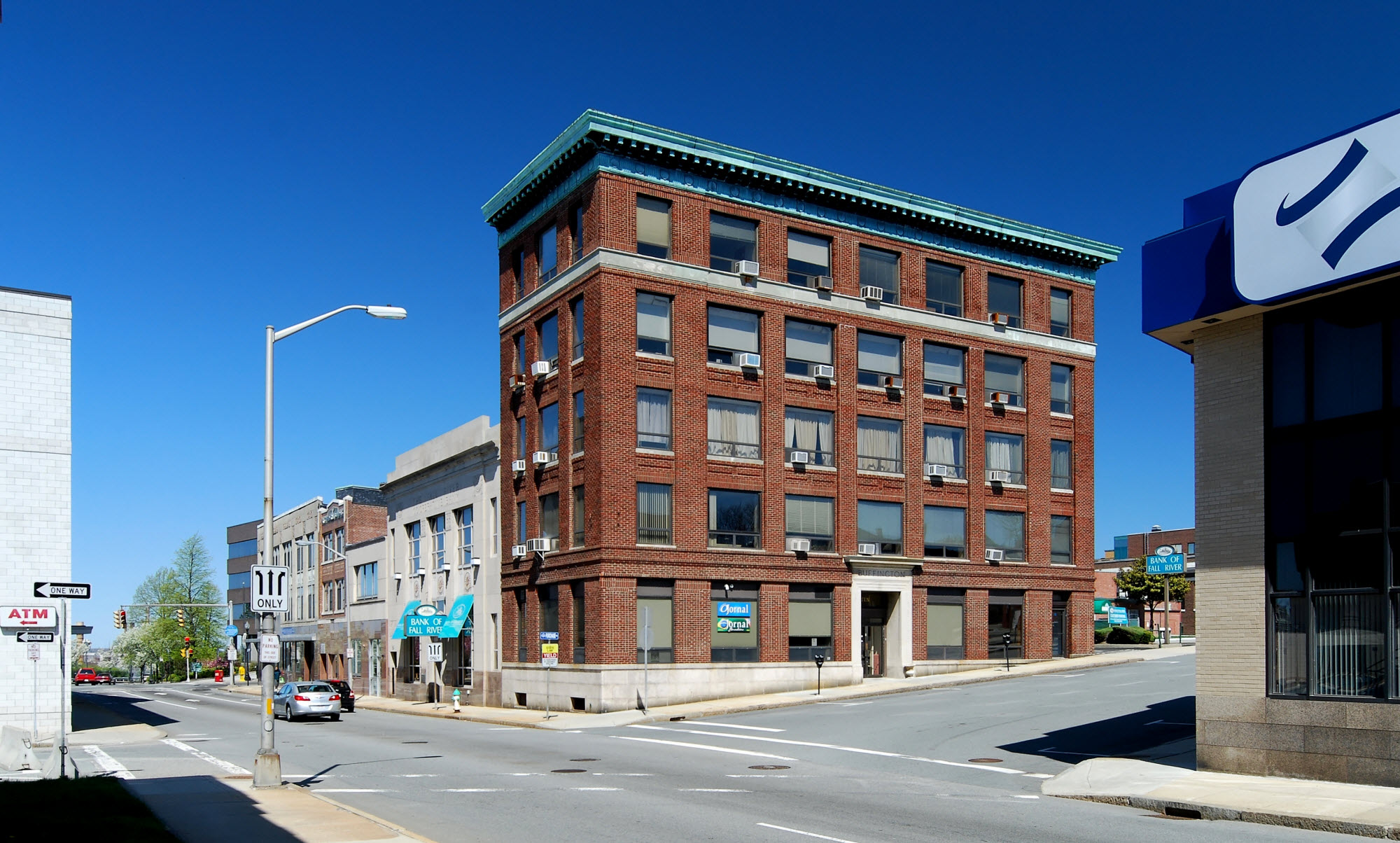 Bedford Street, Fall River, Massachusetts, Part of Downtown Historic District